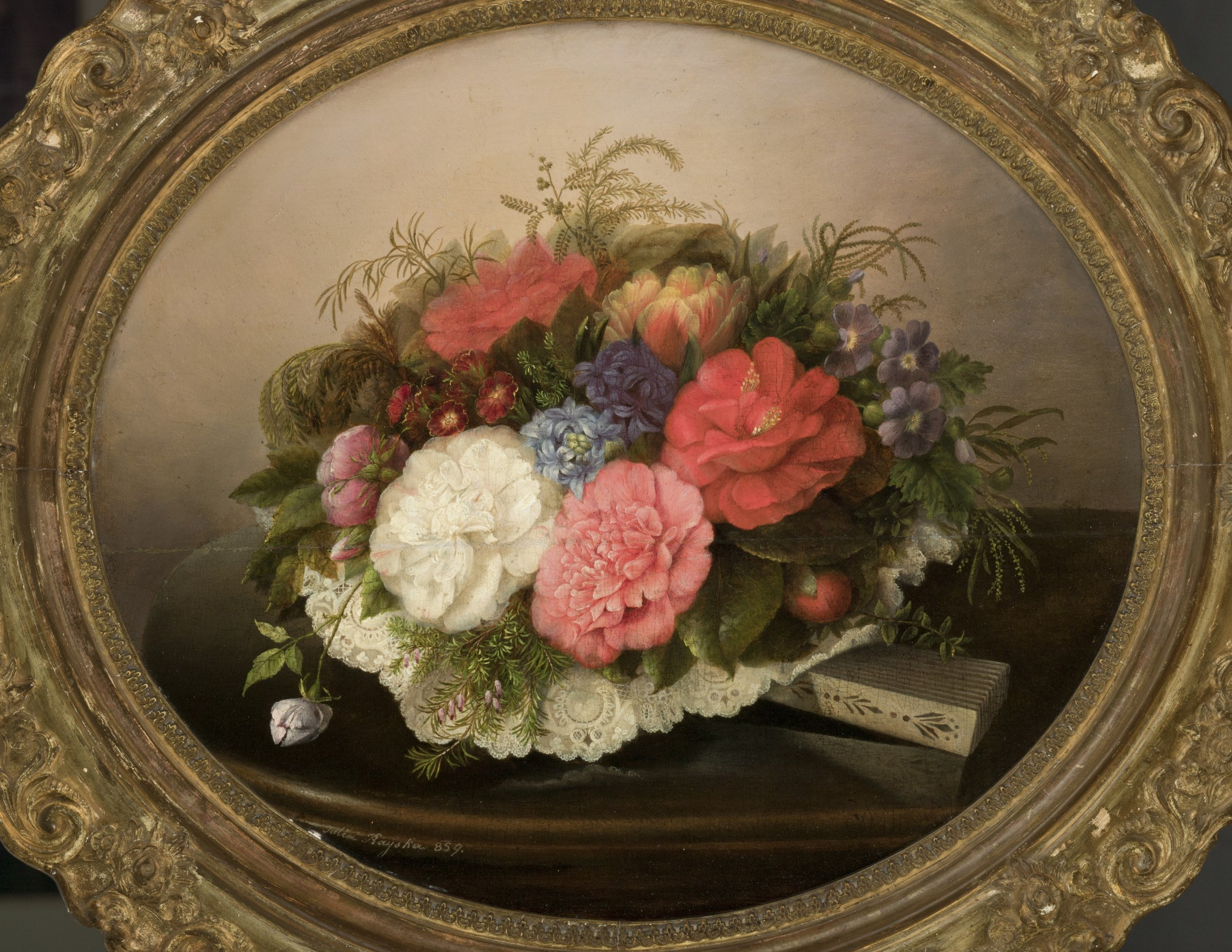 Julia Rayska, Bukiet kwiatów, 1859, Muzeum Narodowe w Krakowie